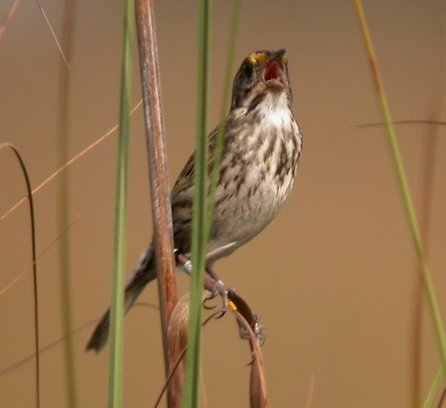 A singing Cape Sable Seaside Sparrow (Ammodramus maritimus mirabilis) in Everglades National Park.